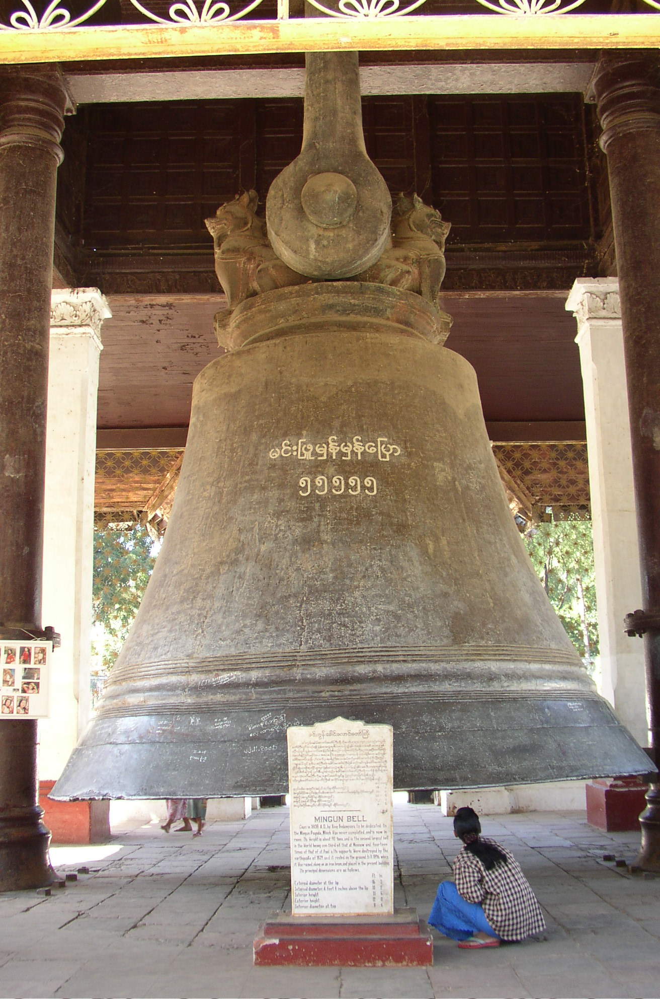 Mingun Bell near the city of Sagaing, Myanmar